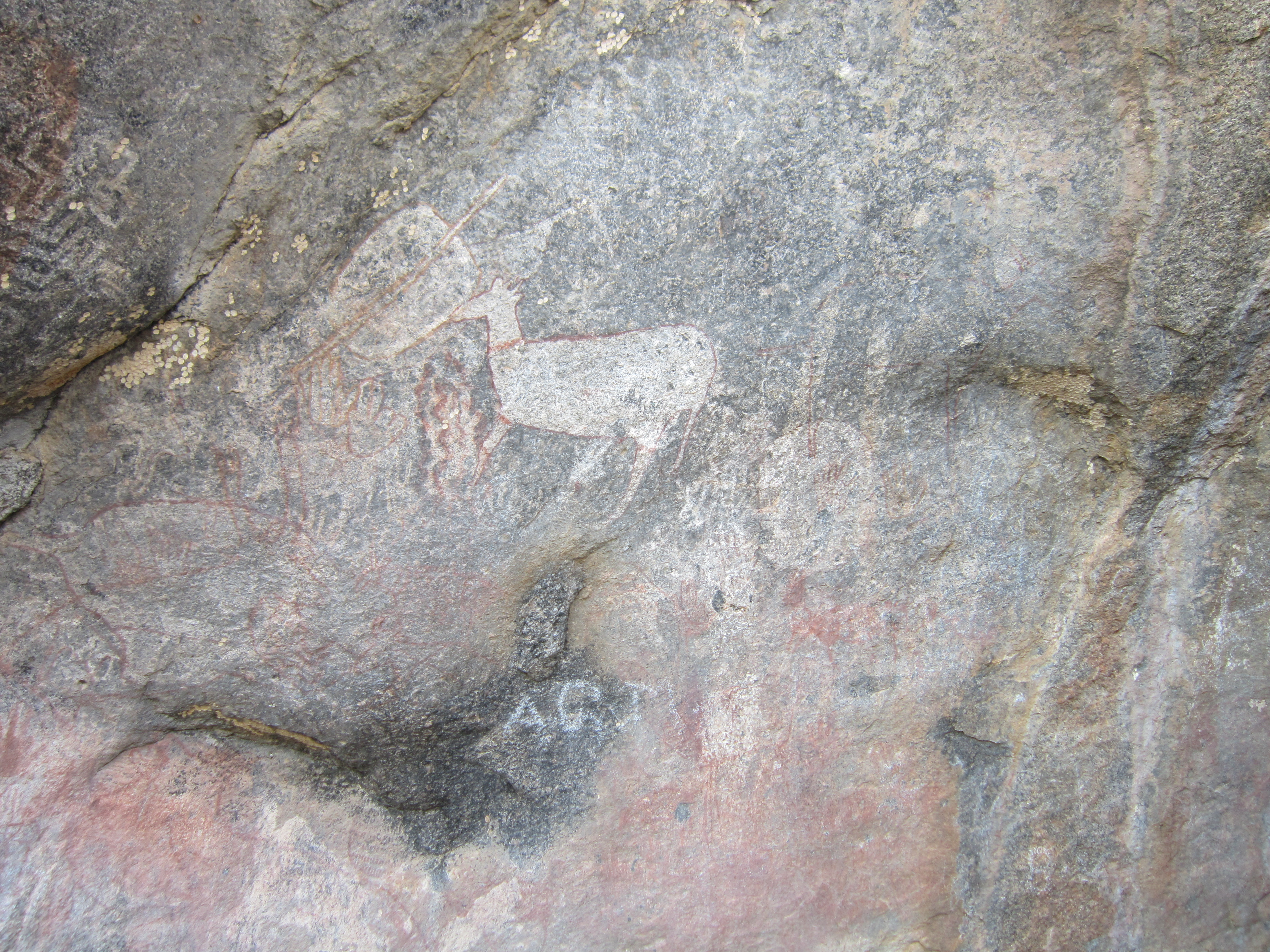 rock art